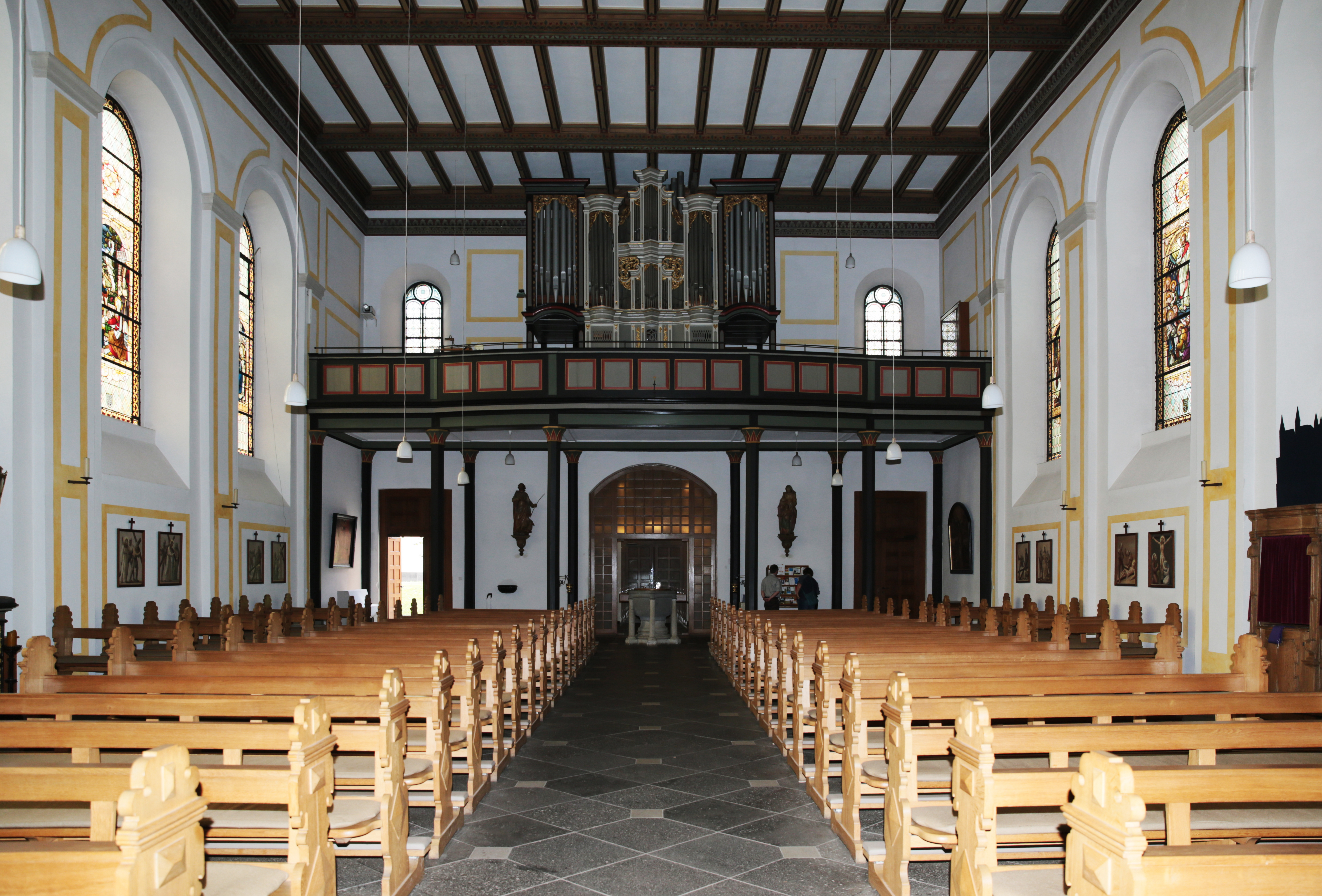 Sechtem (Bornheim), inside St. Gervasius and St. Protasius church